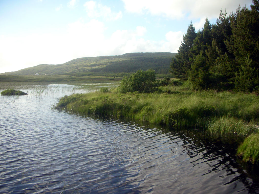 Picture taken in the glenties.